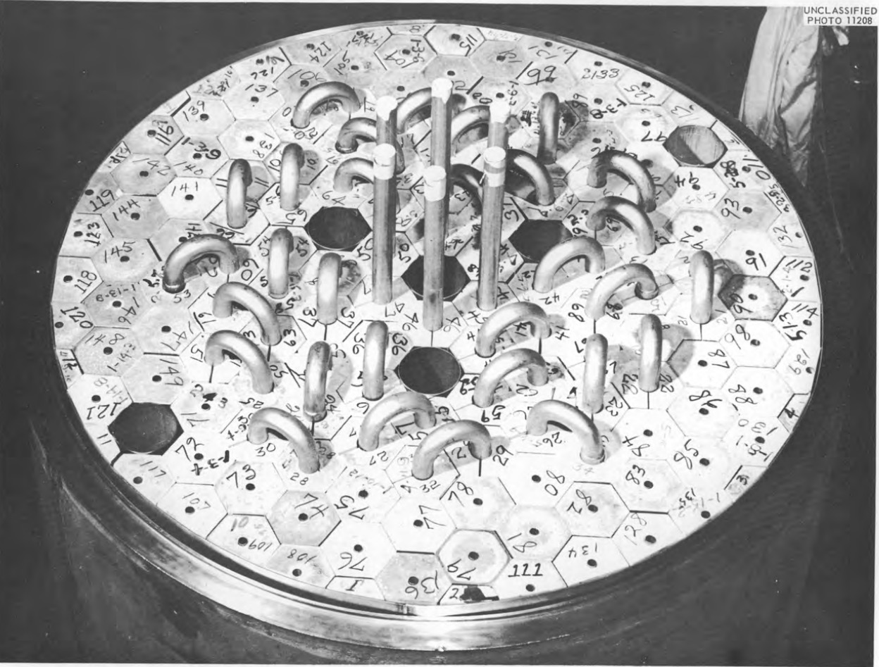 Beryllium moderator blocks of the Aircraft Reactor Experiment with fuel tubes as it was being assembled